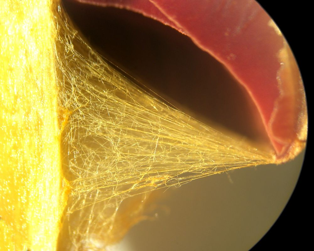 Scientific Name: Cortinarius semisanguineus (Fr.) Gill. Common Name: Red-Gilled Cort Certainty: not sure (notes) Location: Florida Panhandle; Appalachicola NF Date: 20070110 Excellent close-up of the cortina diagnostic of the genus Cortinarius. In cross-section, at 30x.